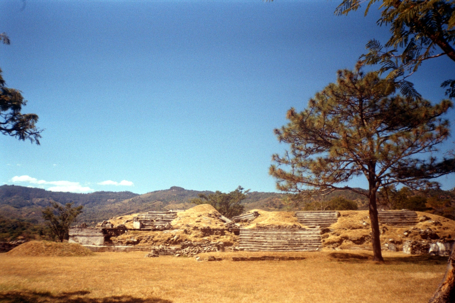 View of Mixco Viejo. Structure C 2.